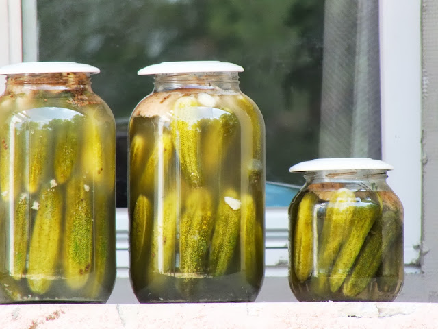 leavened cucumber